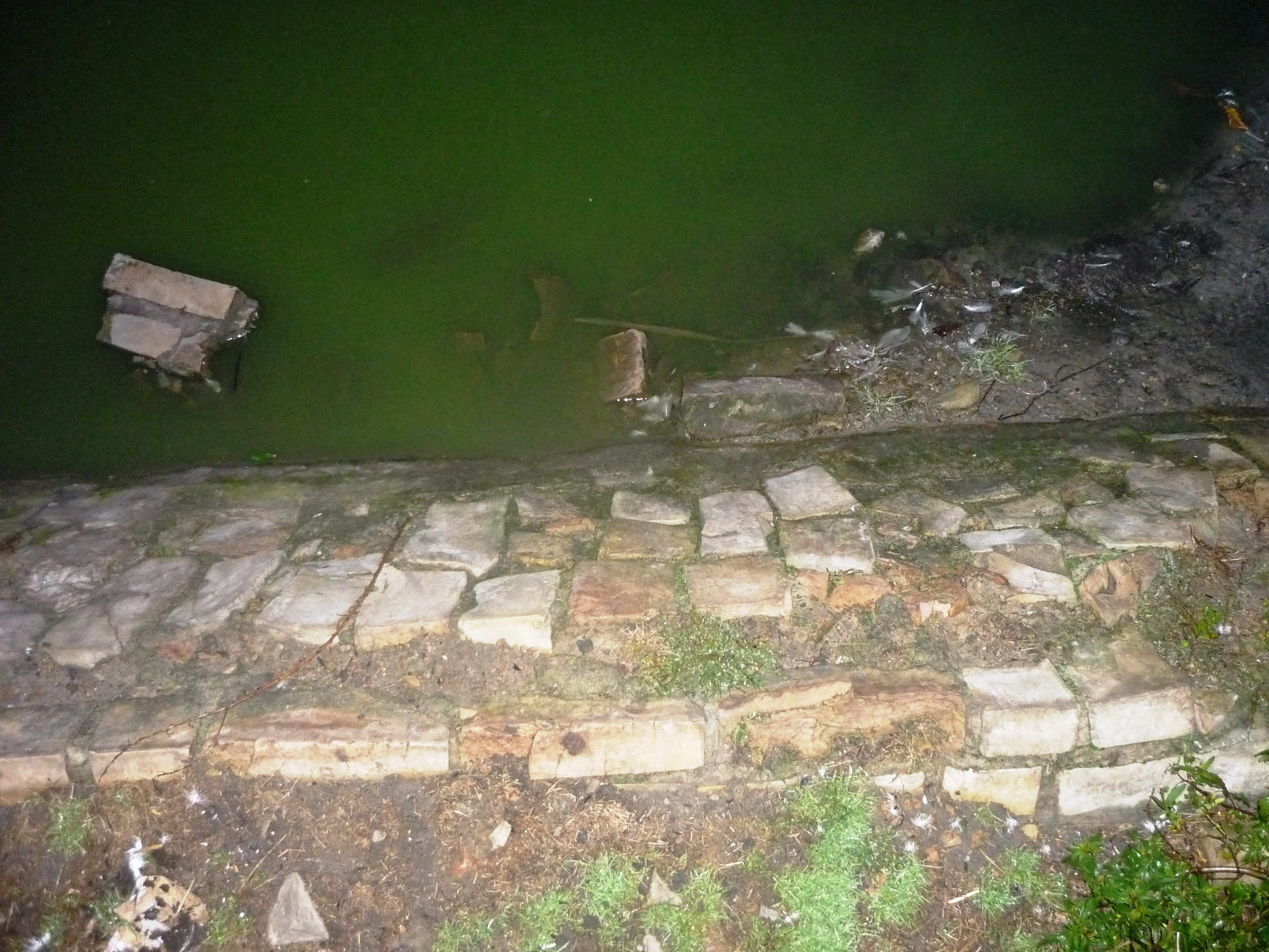 Bridge ruins near River Slovyanka close to Bosh's House, Sloboda, Ukraine, beginning of the XXth century